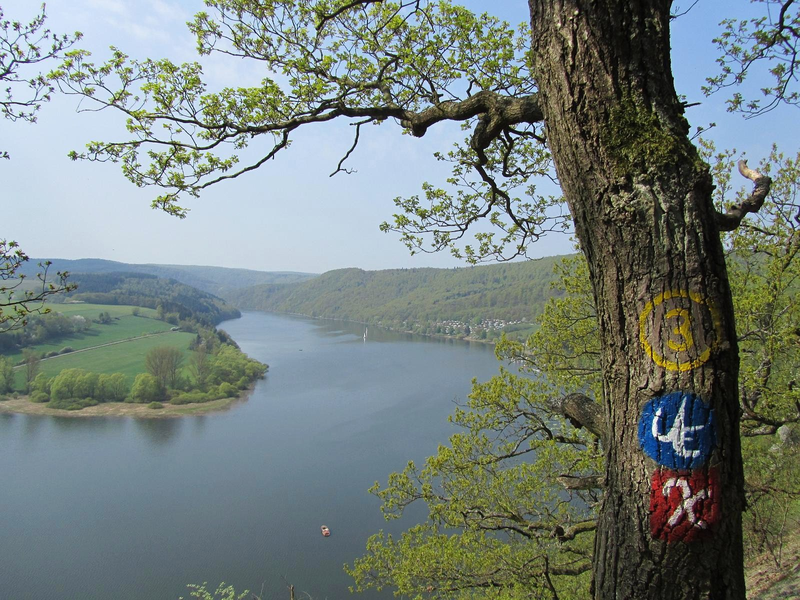 Germany / Hesse: Edersee